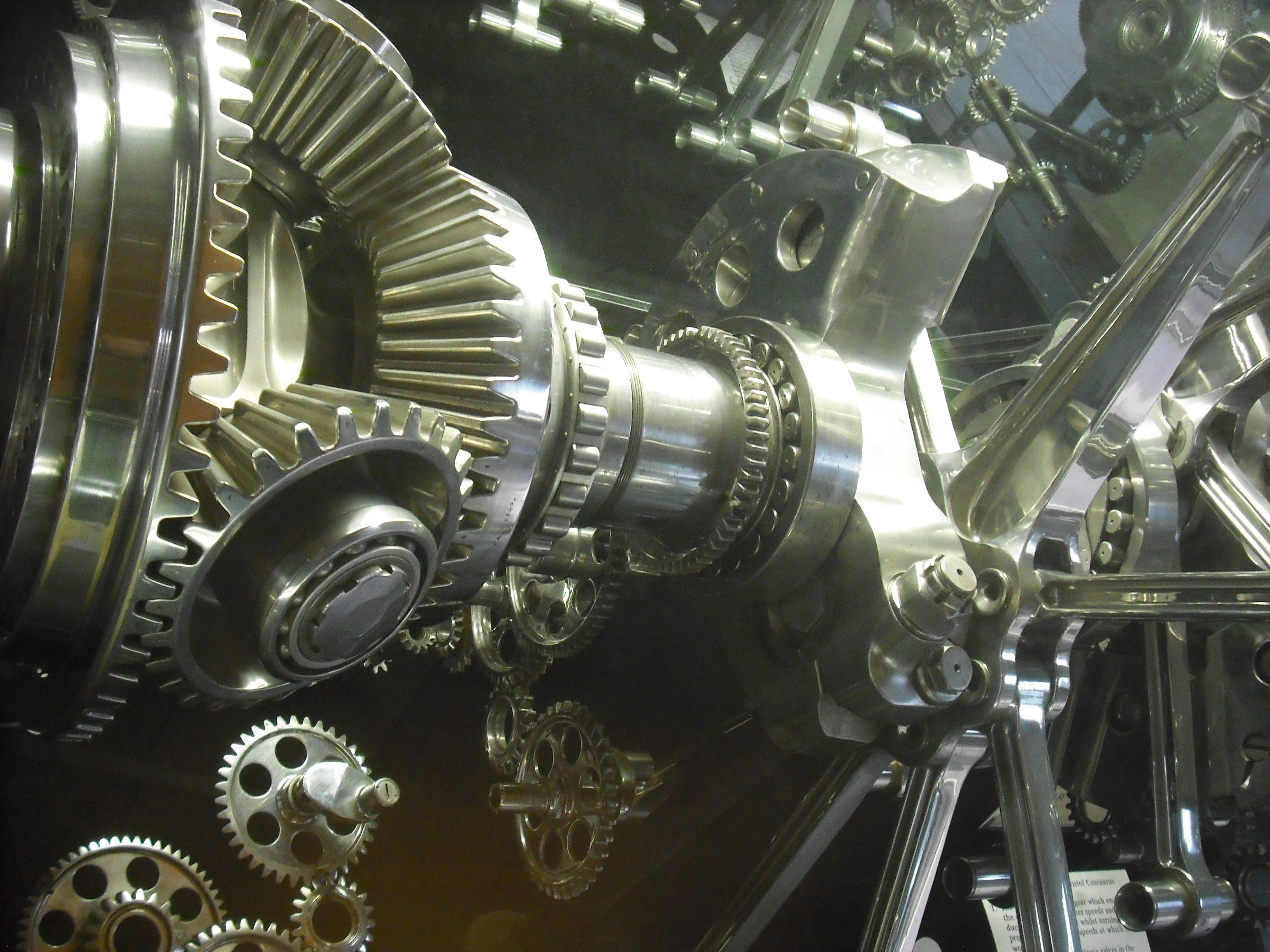 Propeller reduction gears, Crankshaft and master-slave connecting rods of a Bristol Centaurus radial aircraft engine. Photographed at the Bristol City Museum exhibition, "Flight: 100 years of the Bristol Aeroplane Company".